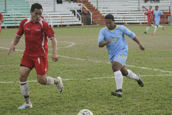 Okelani